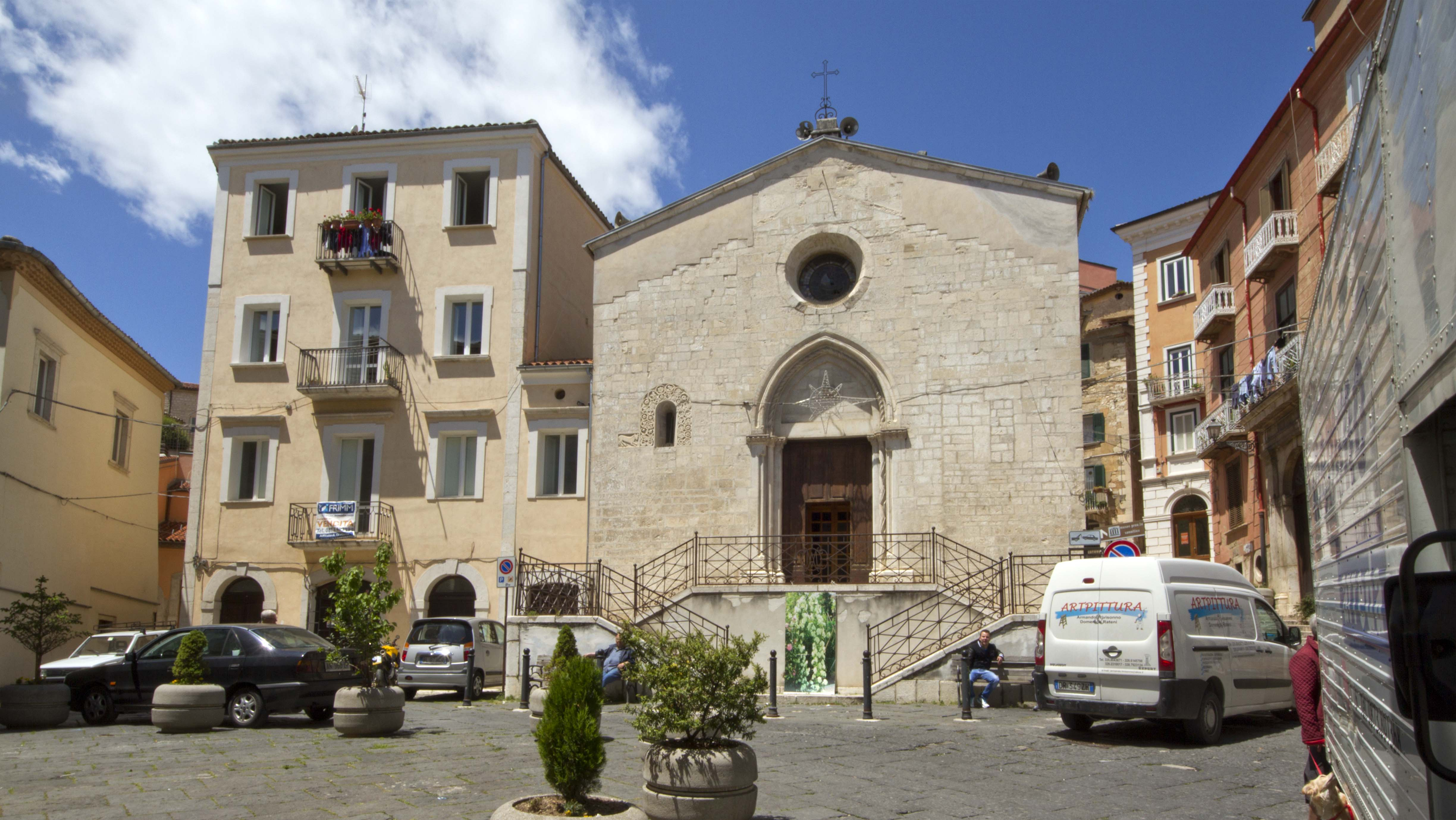 Old Town, 86100 Campobasso, Italy